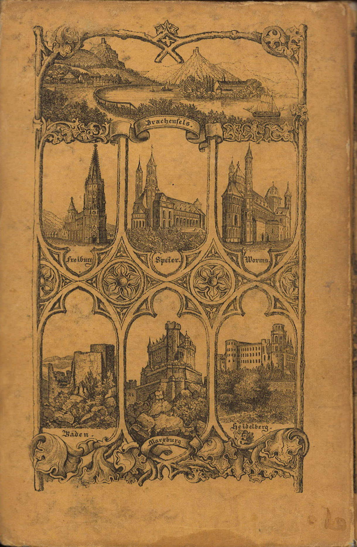 Back cover of 1852 Baedeker travel guide of the Rhine (french language, Le Rhin), Biedermeier-Style, F 3